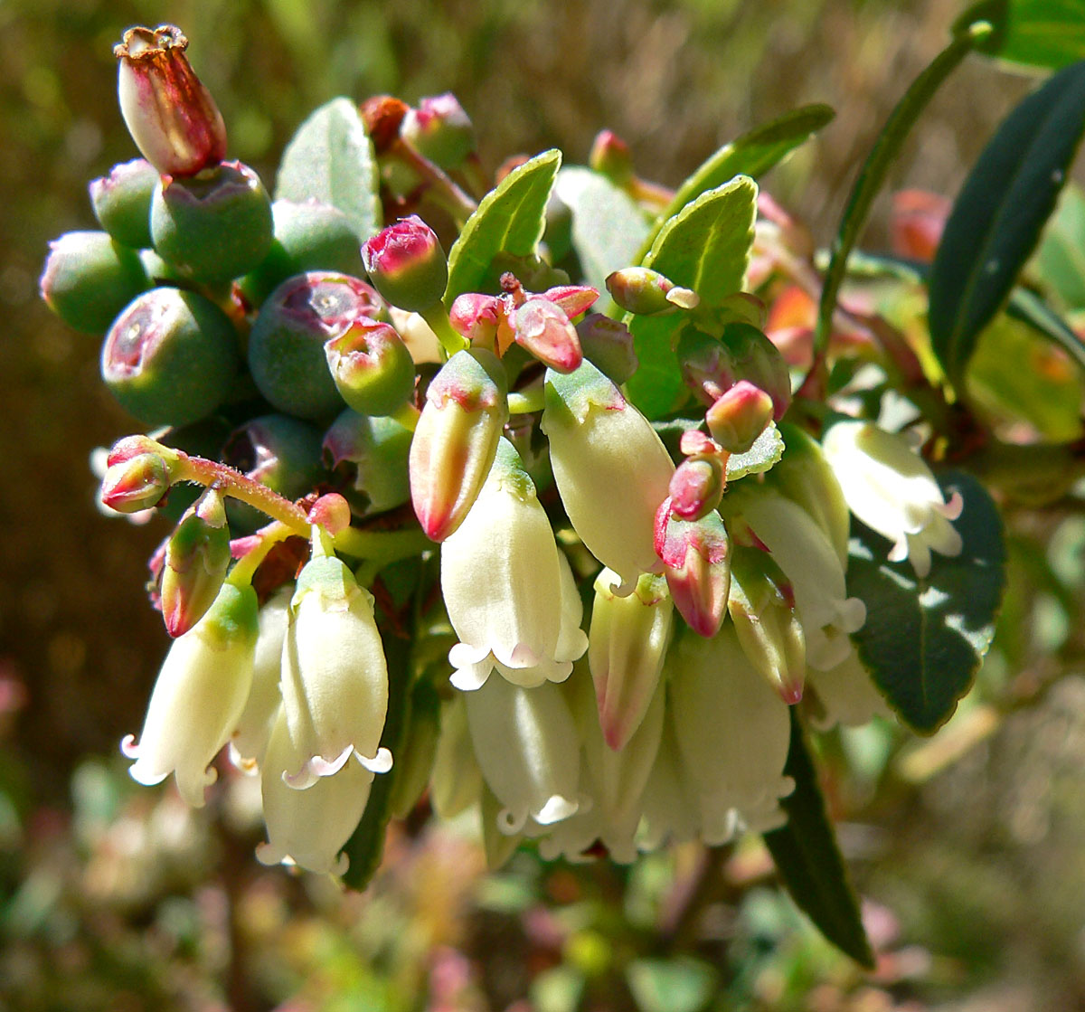 Vaccinium consanguineum at the University of California Botanical Garden, Berkeley, California